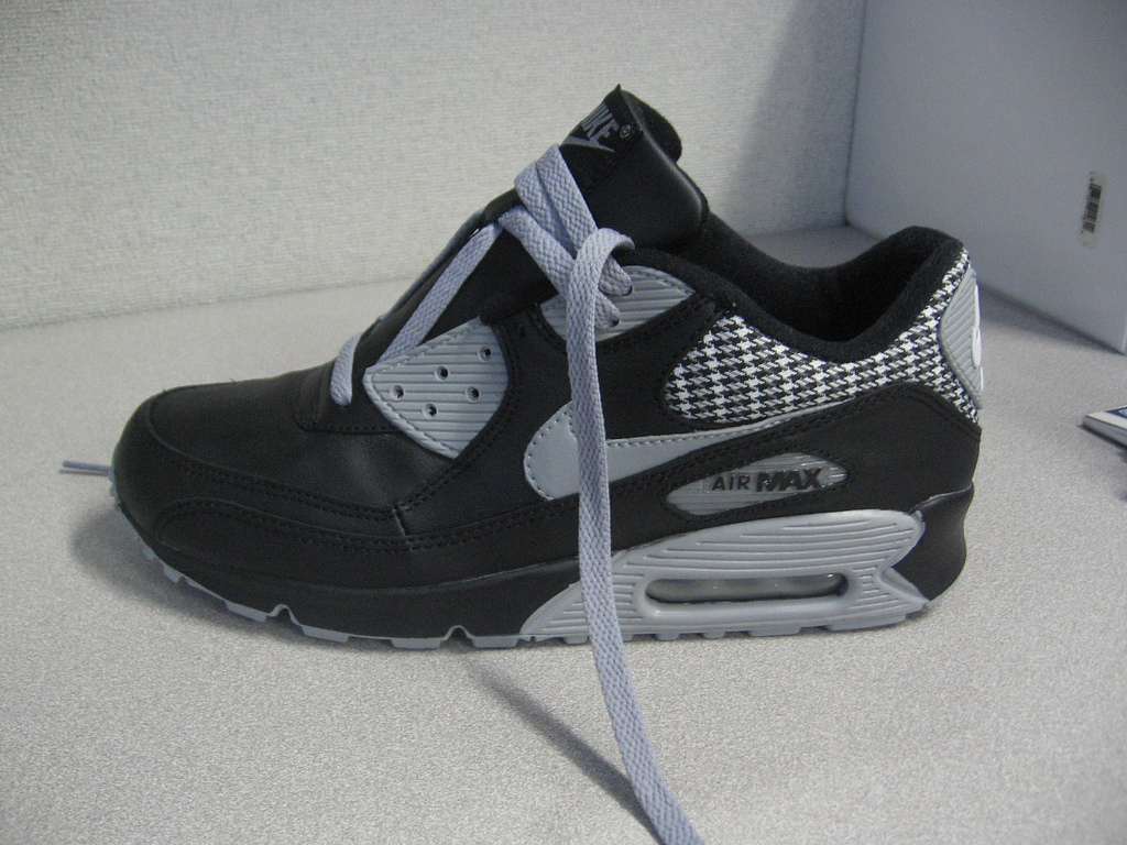 Nike Air Max Hiphop bboy african style sneakers gear.